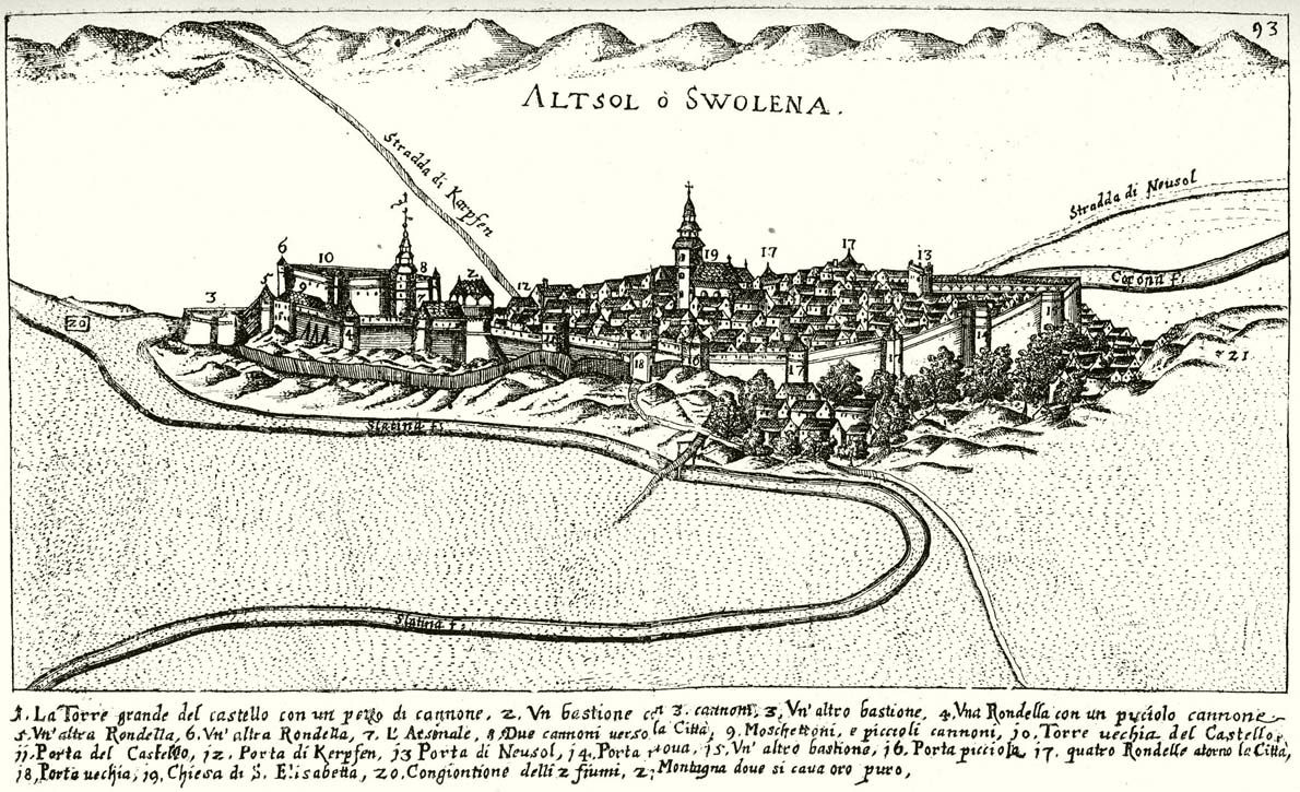 Zvolen in 17th century